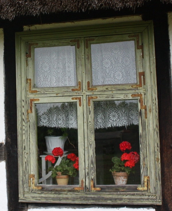 Kluki Skansen, window, village